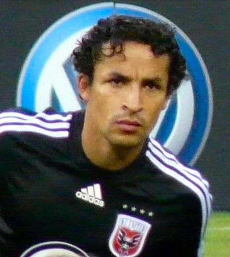 Ivan Guerrero at Major League Soccer (MLS) match between D.C. United and Kansas City Wizards at RFK Stadium, Washington, DC.